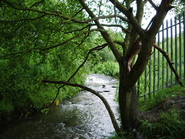 Buckley Brook, a watercourse in Rochdale, Greater Manchester, England. Buckley Brook is a tributary of Hey Brook, which in turn is a tributary of the River Roch.